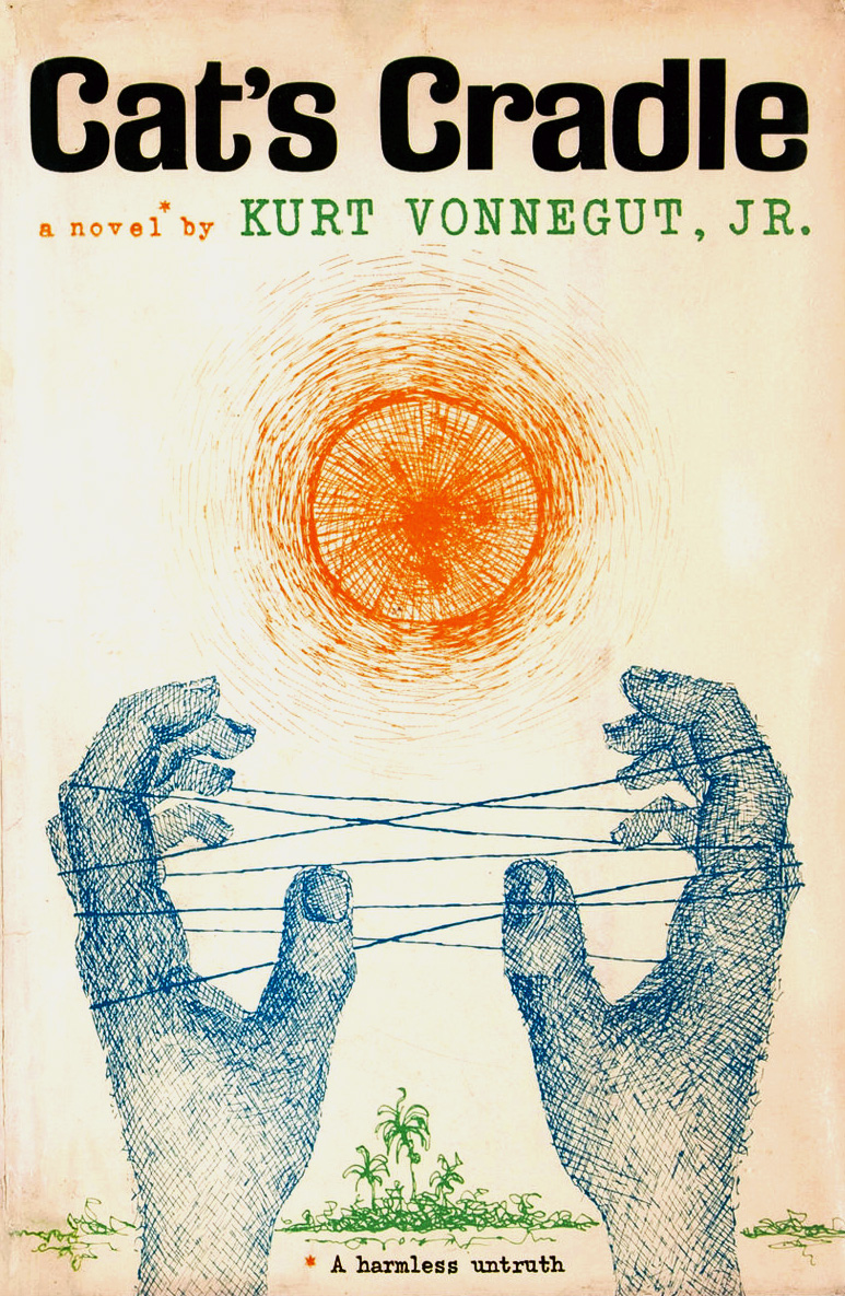 First-edition dust jacket of the novel Cat's Cradle (1963) by the American author Kurt Vonnegut. Published by Holt, Rinehart & Winston (now called Holt McDougal).